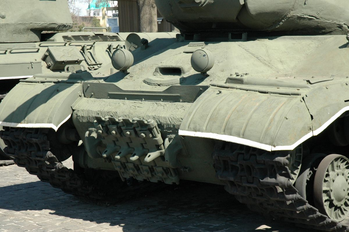 Iosif Stalin IS-2 Soviet heavy tank (Museum of Great Patriotic War, Kyiv)